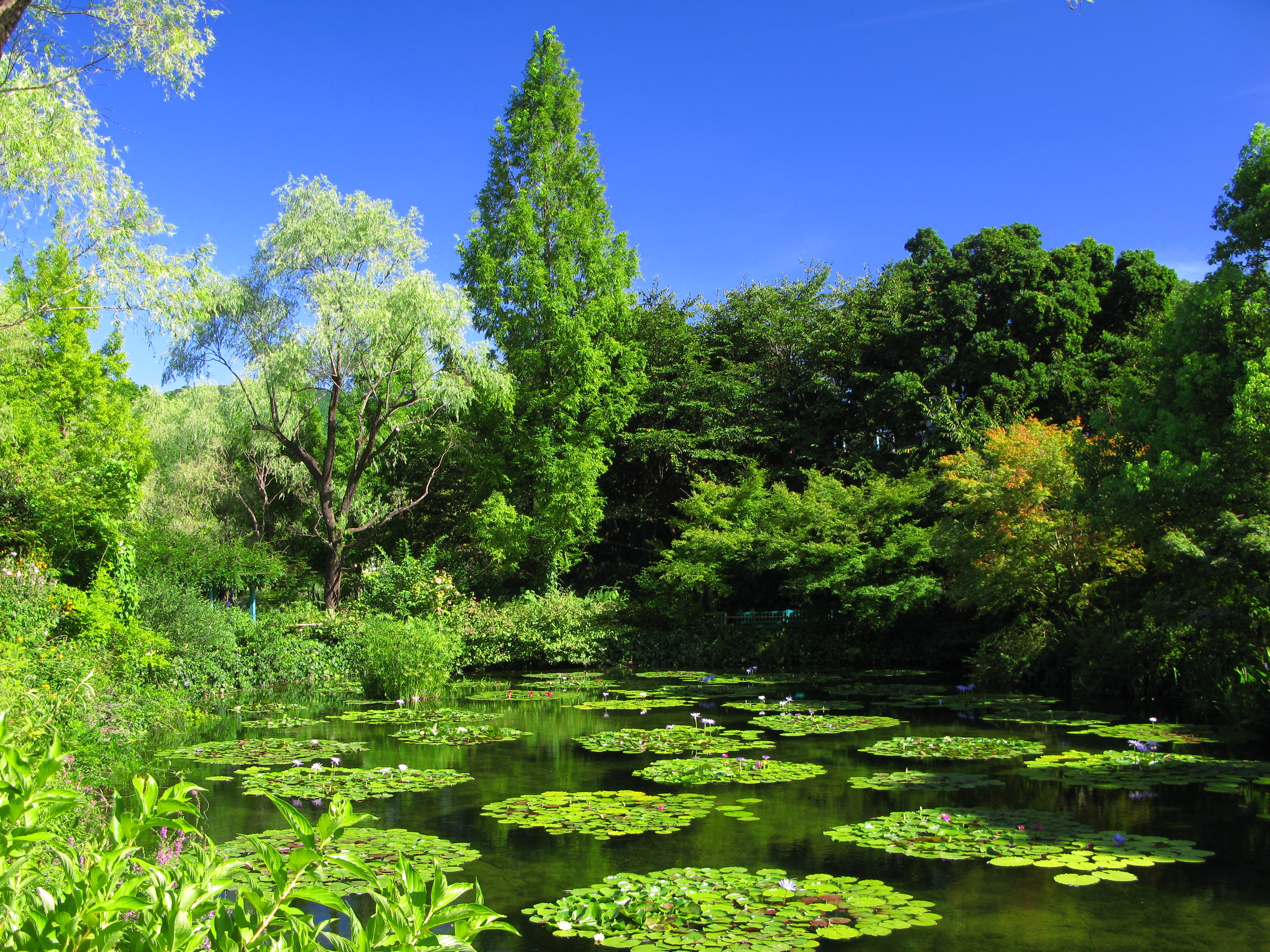 A Monet Marmottan water garden inKitagawa, Aki District, Kōchi, Japan